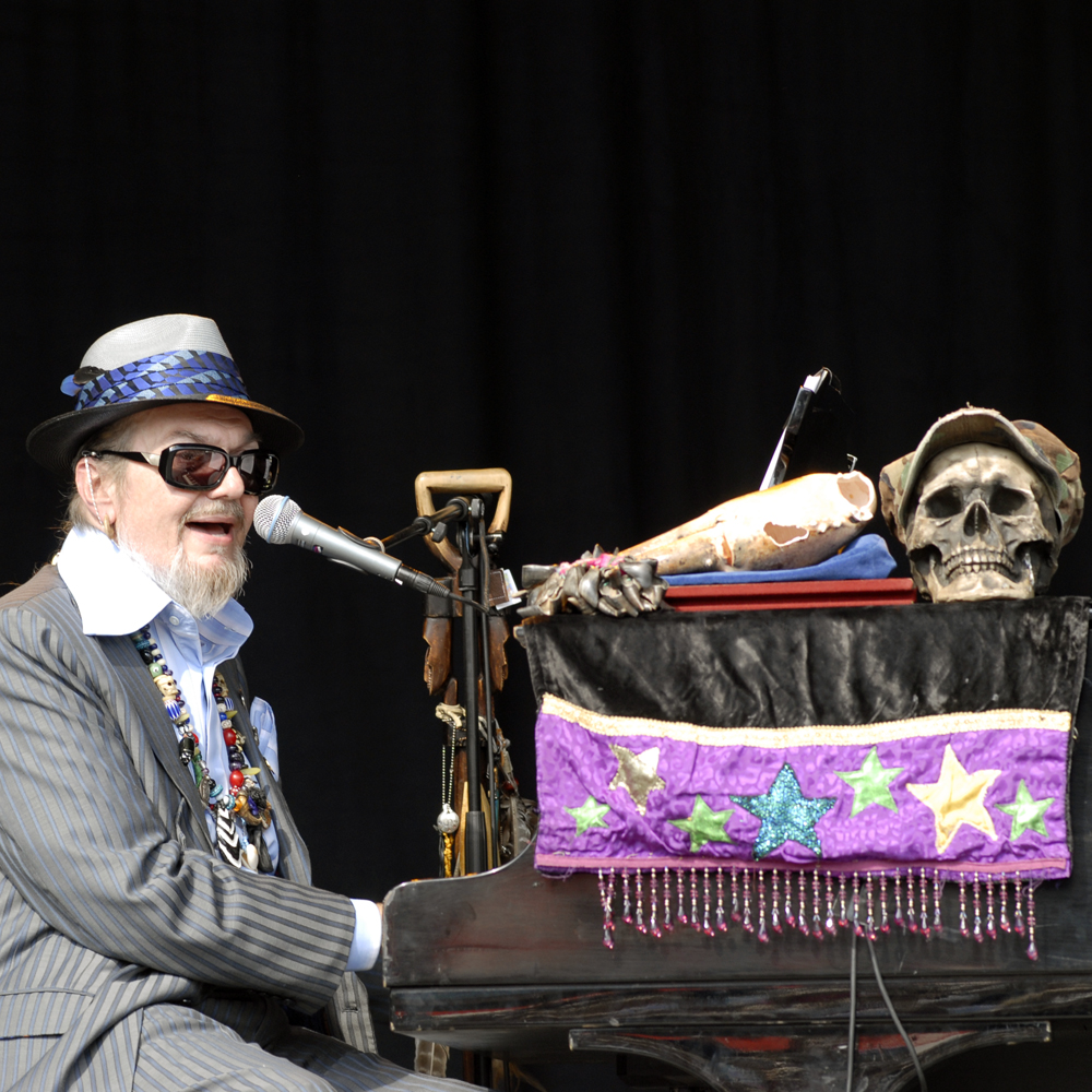 Dr John performing at Stockholm JazzFest09